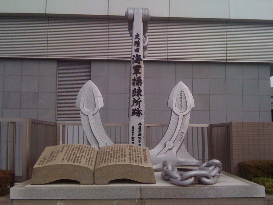 Monument of the former navy training center in Kobe